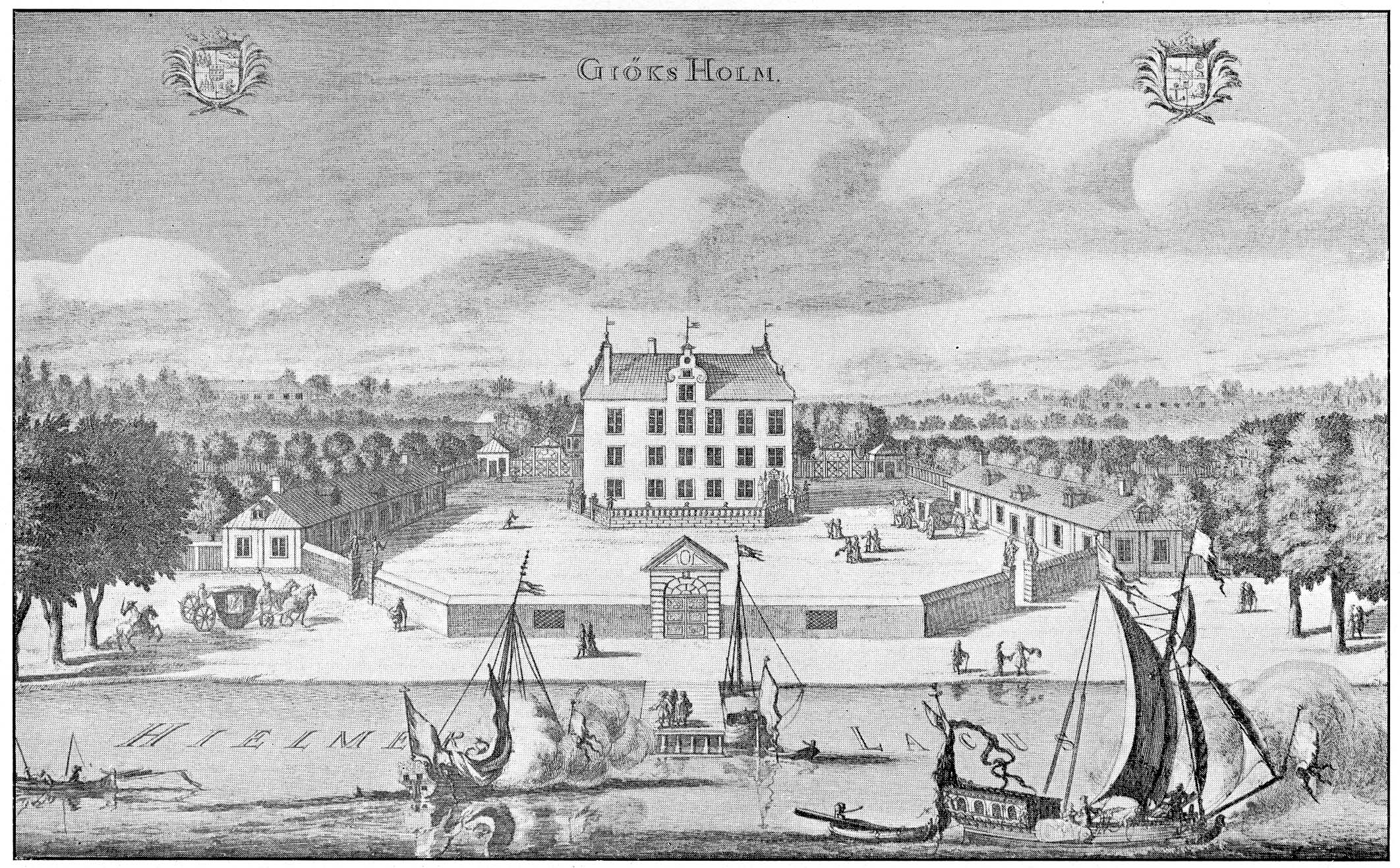 Castle Gökholm, Örebro Municipality, Sweden